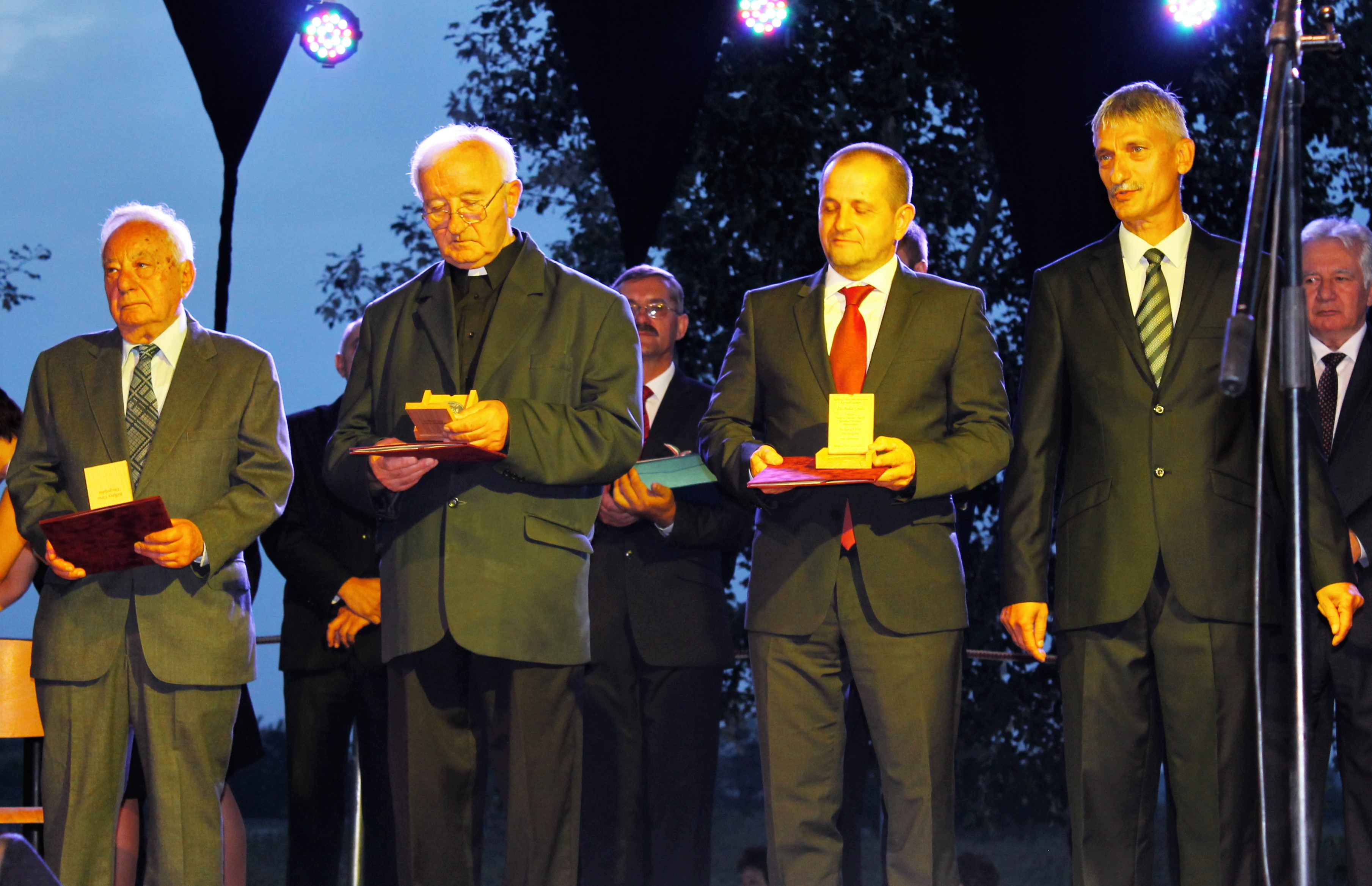 The honorary citizens of the Town of Balkány, Hungary in 2015, from left to right: Imre Rákos, László Vitai and Gyula Budai dr. On the right side László Pálosi, mayor.